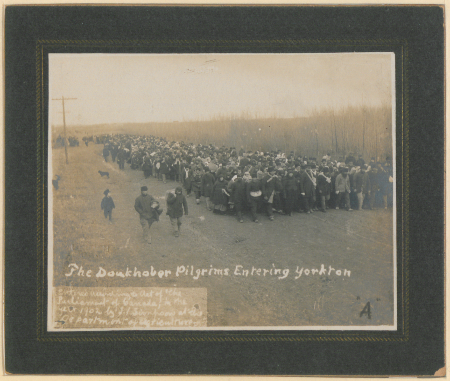 The Doukhobor pilgrims entering Yorkton. Photo A.